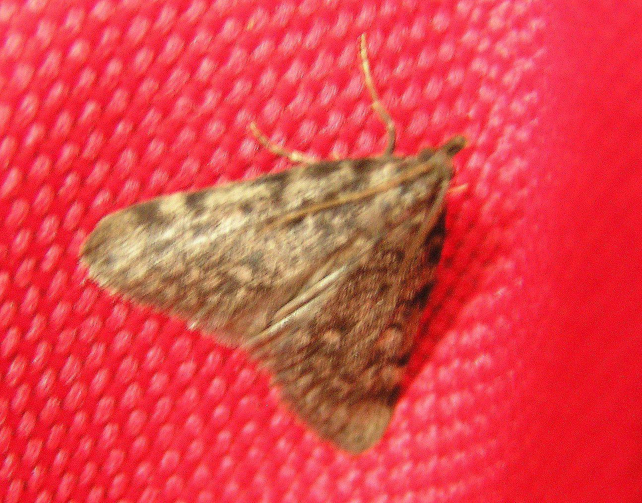 Aglossa pinguinalis, taken in Goes, the Netherlands